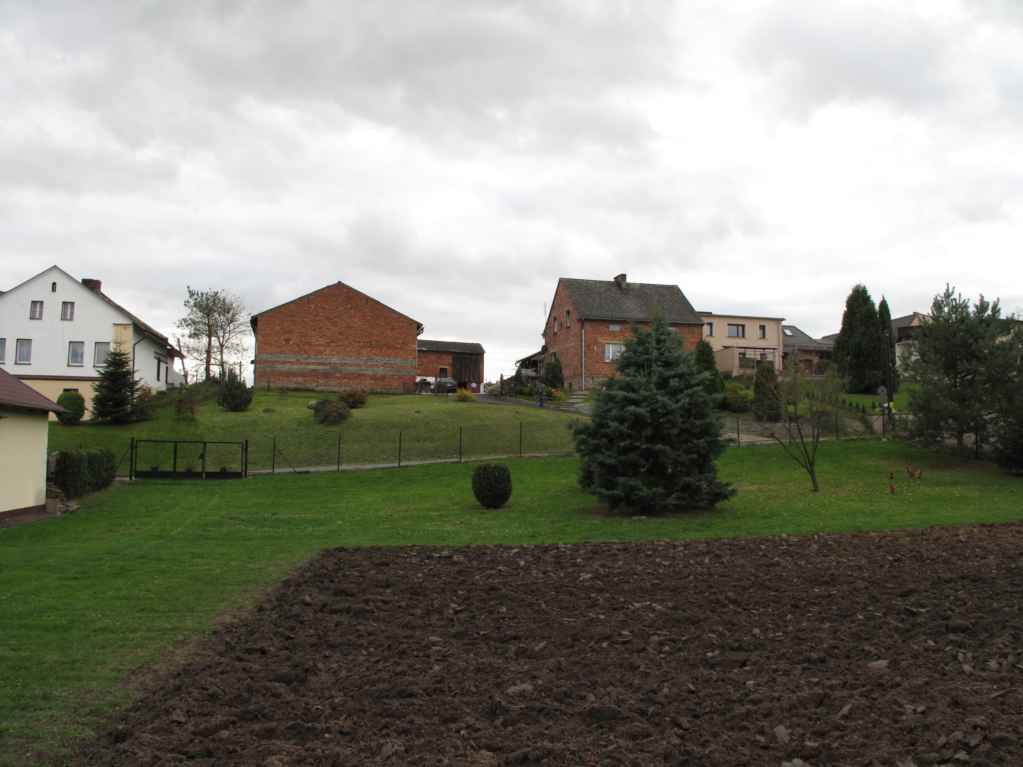 Strzybnik. Racibórz County, Poland.